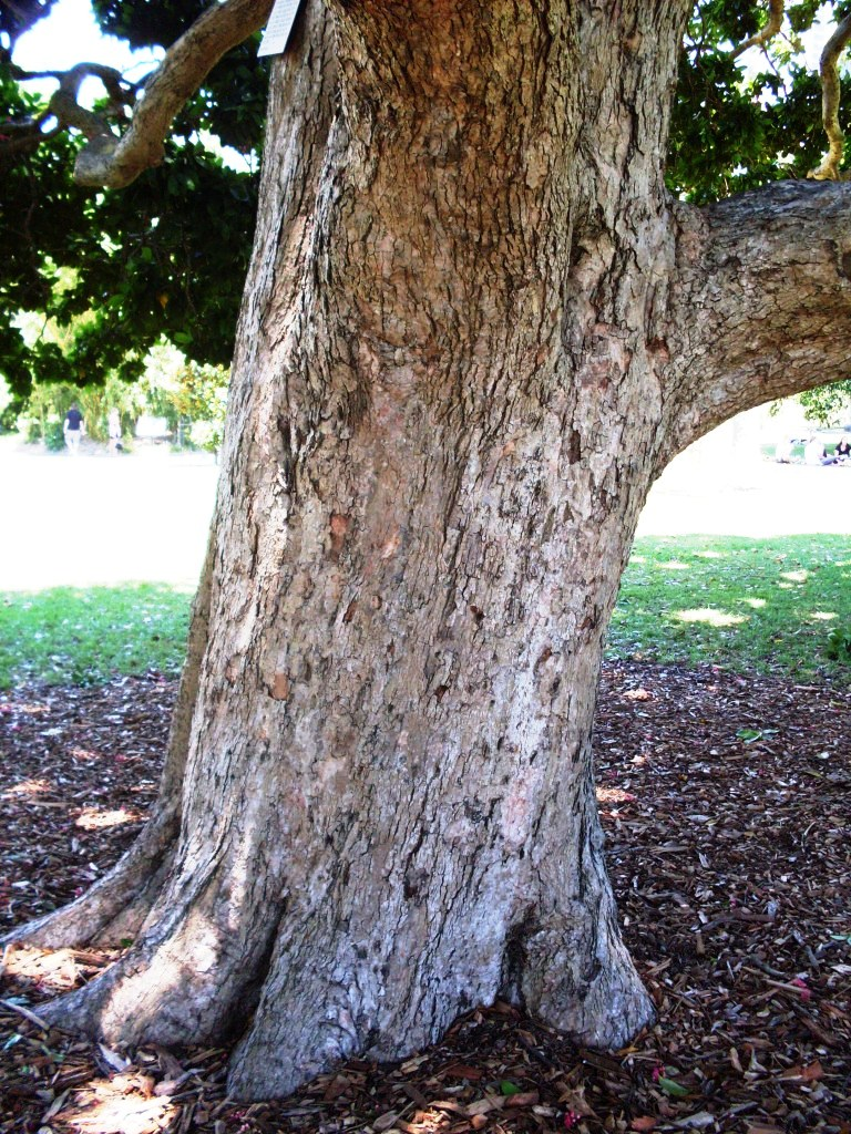 Syzygium moorei trunk, Royal Botanic Gardens, Sydney